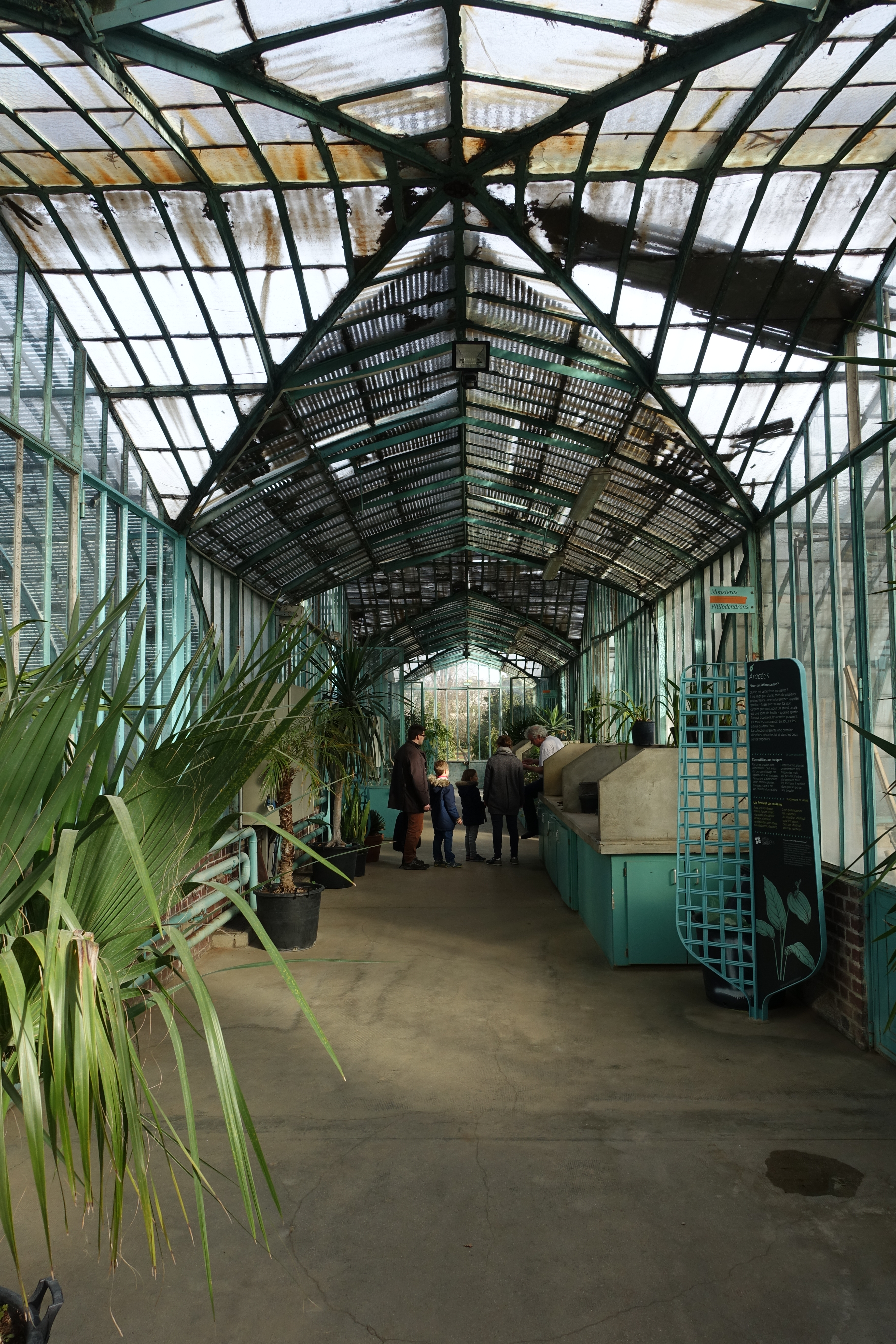 Jardin des serres d'Auteuil, a botanical garden in the Bois de Boulogne, Paris 16th, located at 3 avenue de la Porte d'Auteuil and 1 avenue Gordon-Bennett.